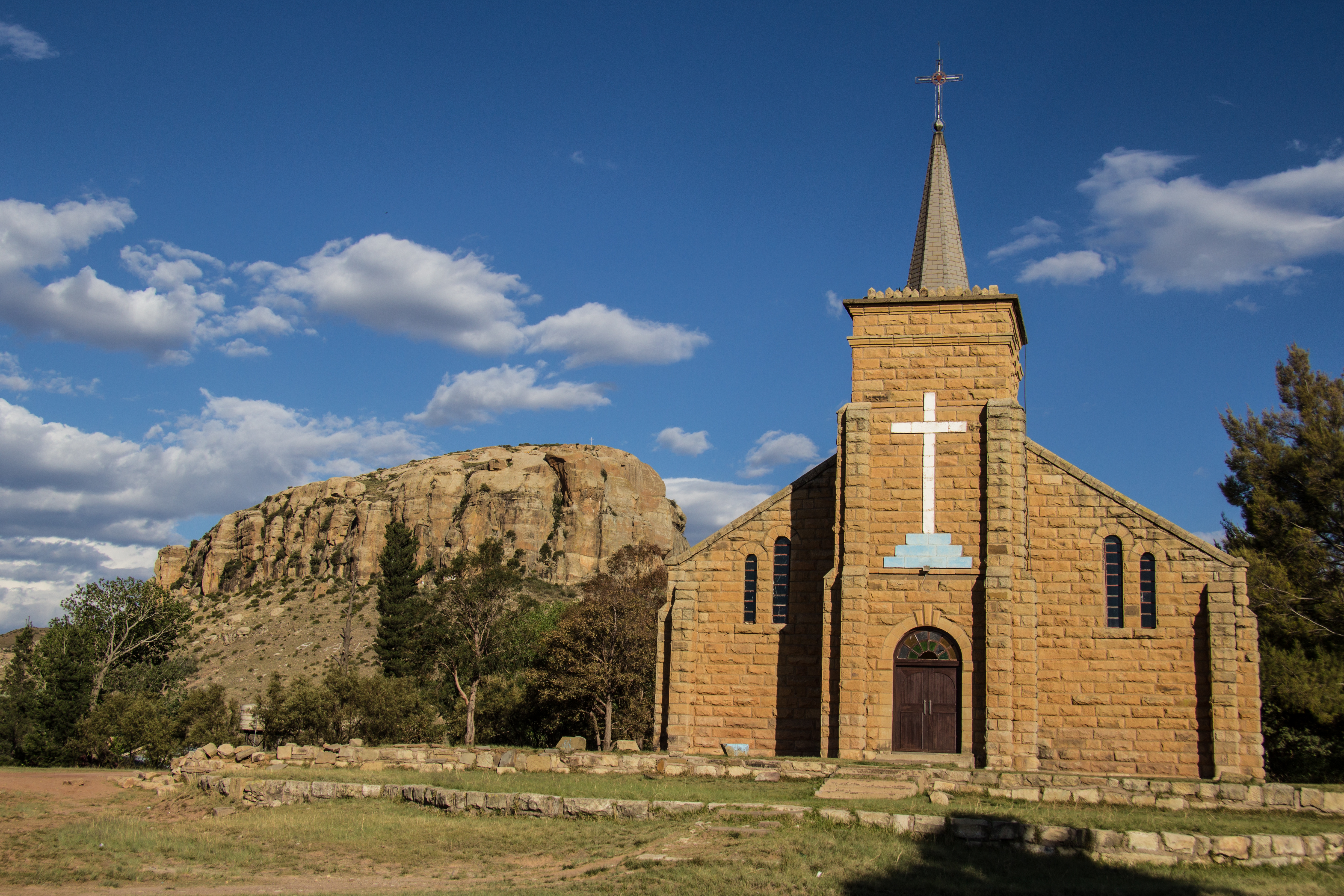 St Michaels Cathedral Lesotho, near Roma